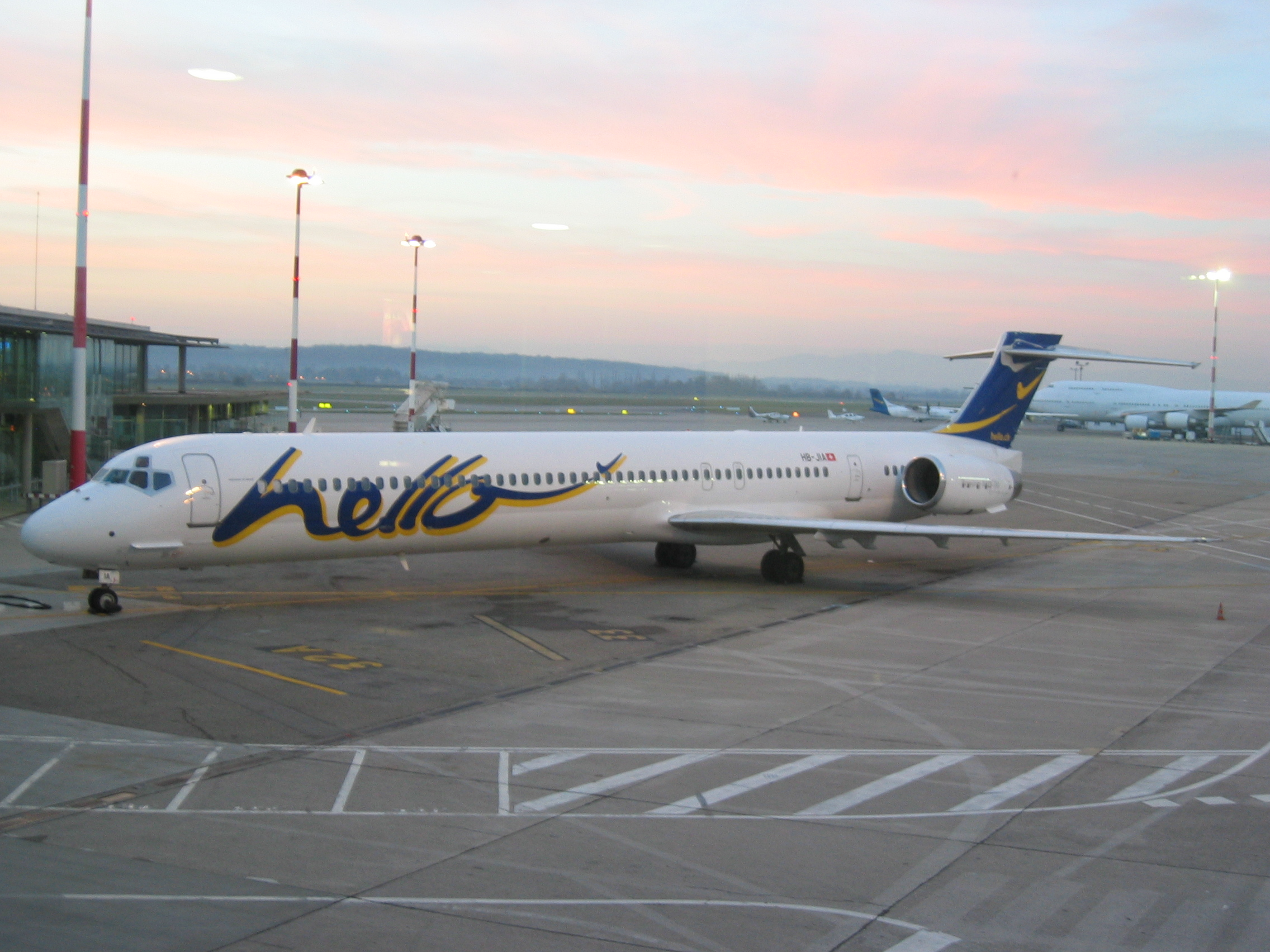 Hello Airlines MD-90 at Basel-Mulhouse-Freiburg Airport in November 2006